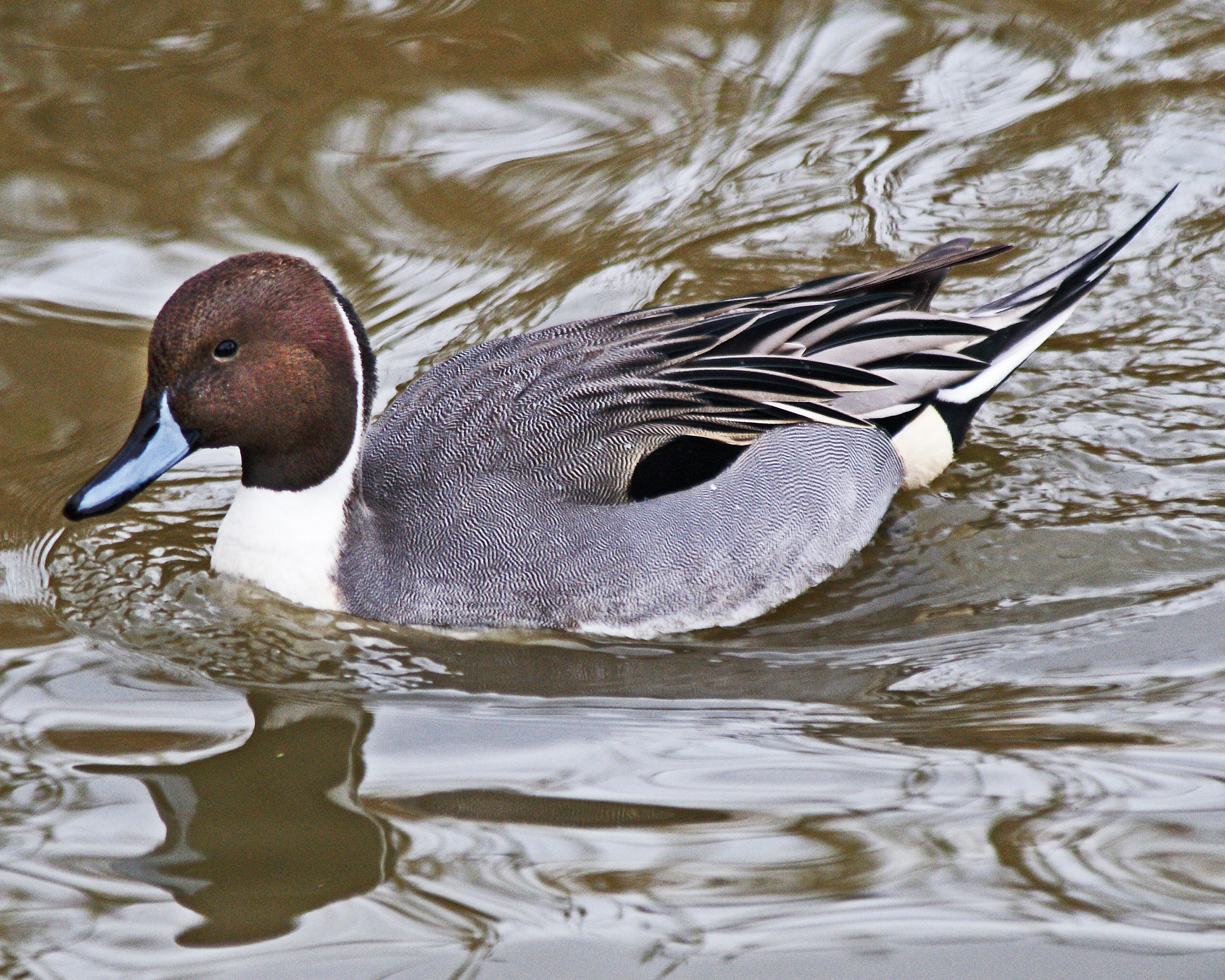 A Northern Pintail (also called the Pintail) swimming in November 2009 at the George C. Reifel Migratory Bird Sanctuary, Westham Island in the Fraser River, near Ladner, British Columbia, Canada.